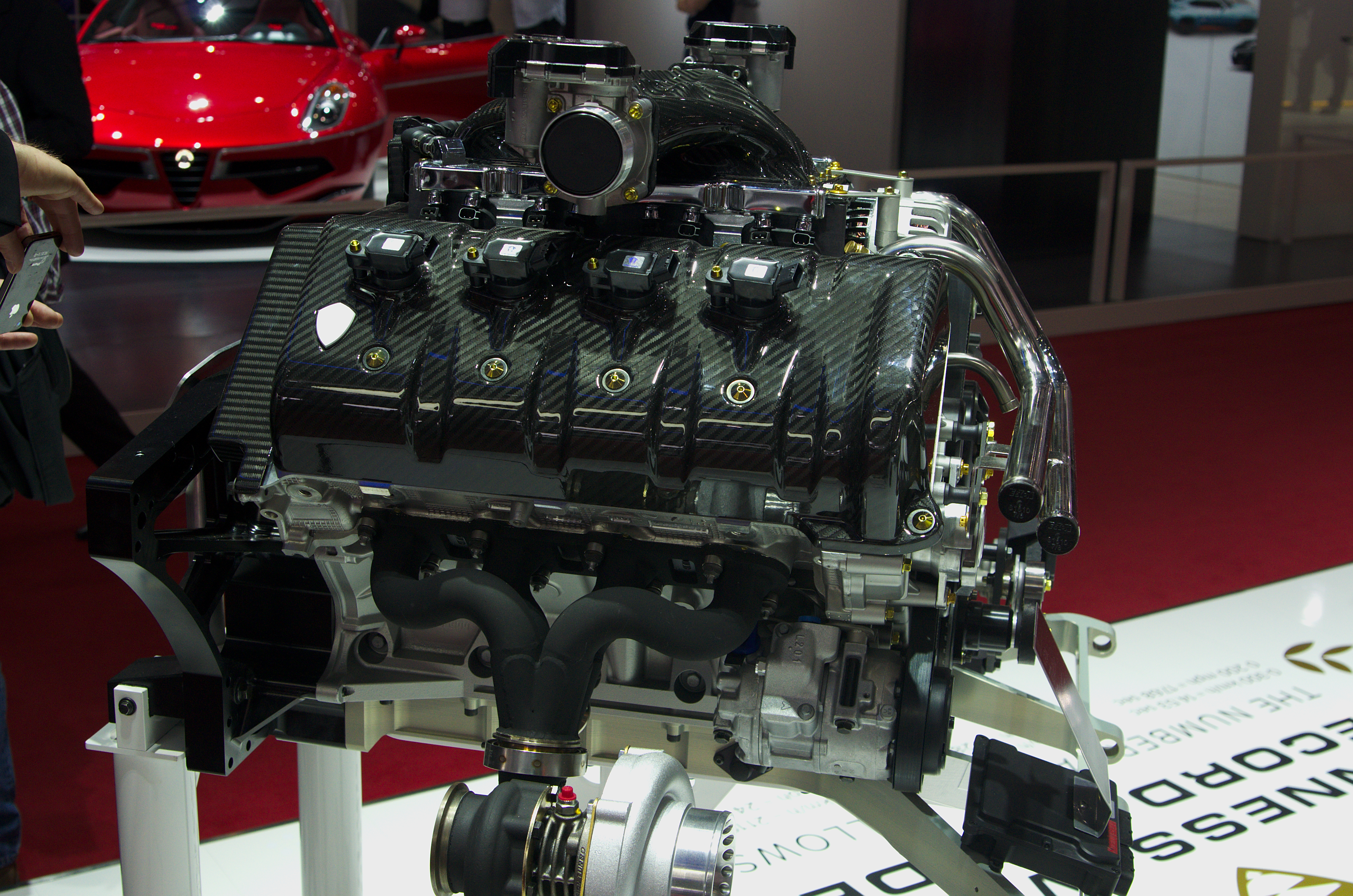 Geneva MotorShow 2013 - Koenigsegg Agera S Hundra motor